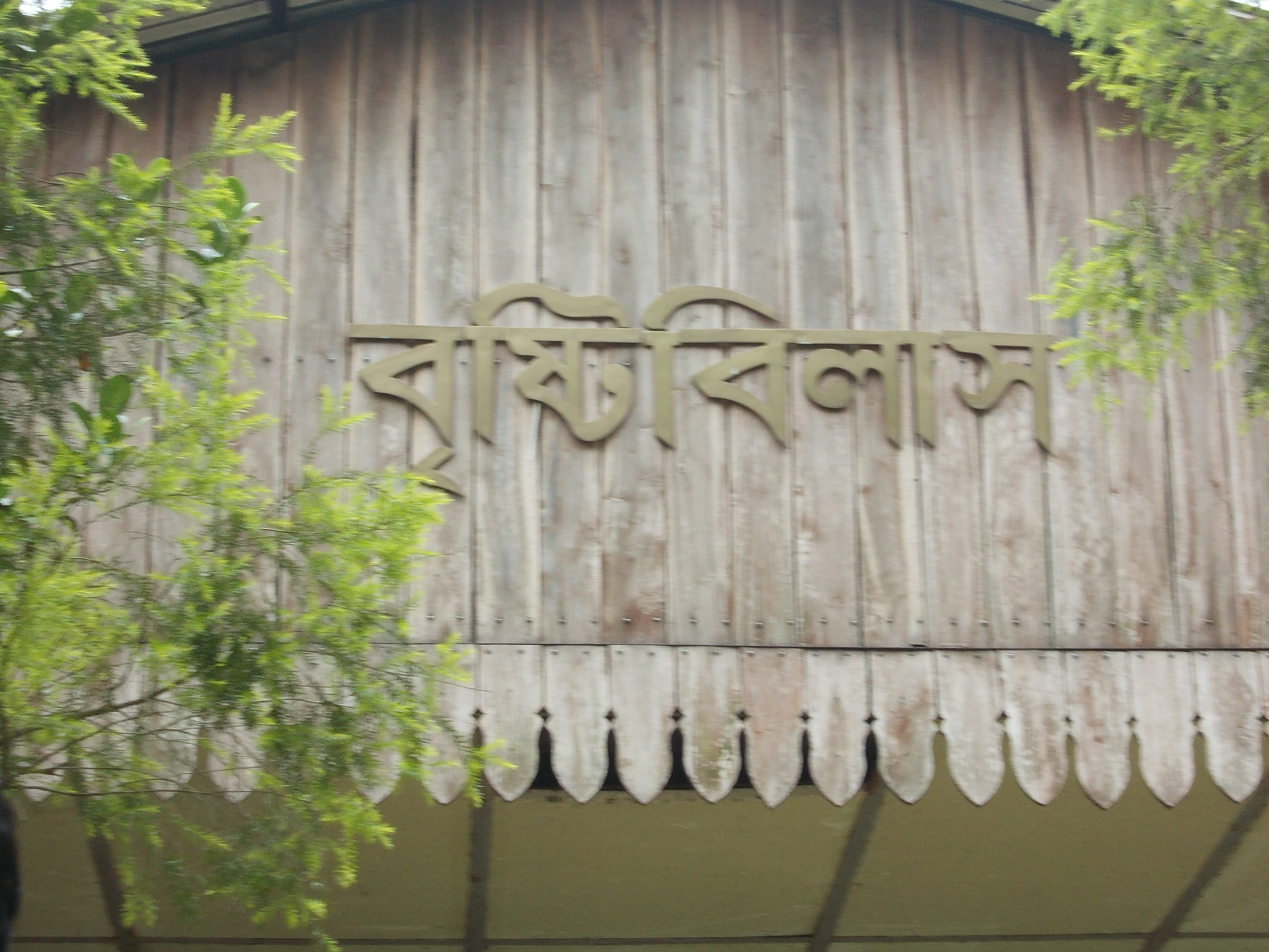 Bristi-Bilas, a sweet residential creation of Sir Humayun Ahmed, the famous Literary figure of modern Bangladesh literature, to watch and enjoy Bristi (rain) in a poetic mood at his Passionate home- Nuhash Palli